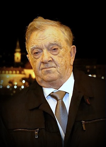 Peep Veski, professor